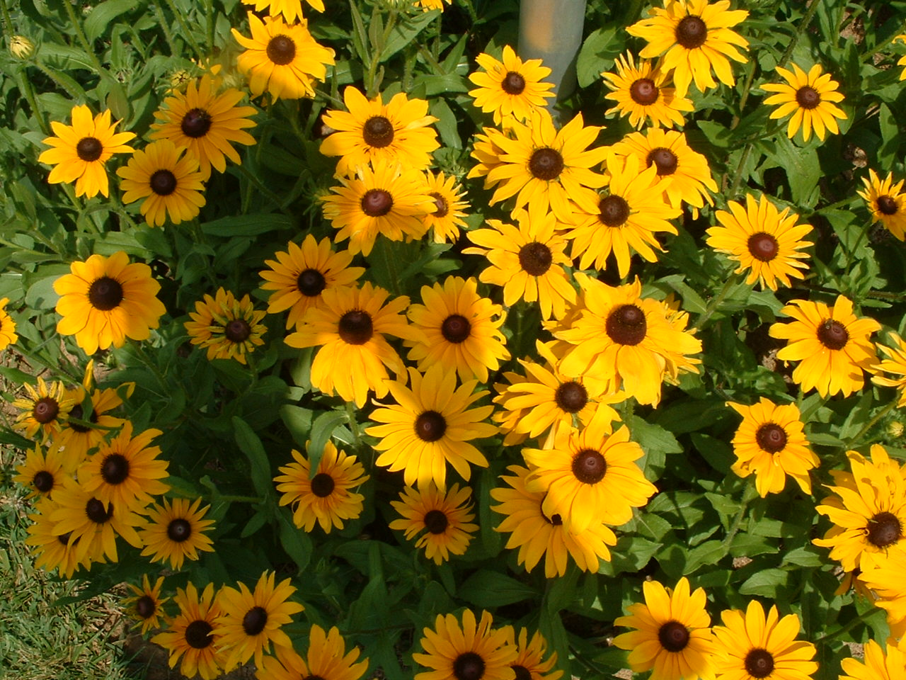 A group of Black Eyed Susans. The Black eyed Susan is the state flower of Maryland.[1]